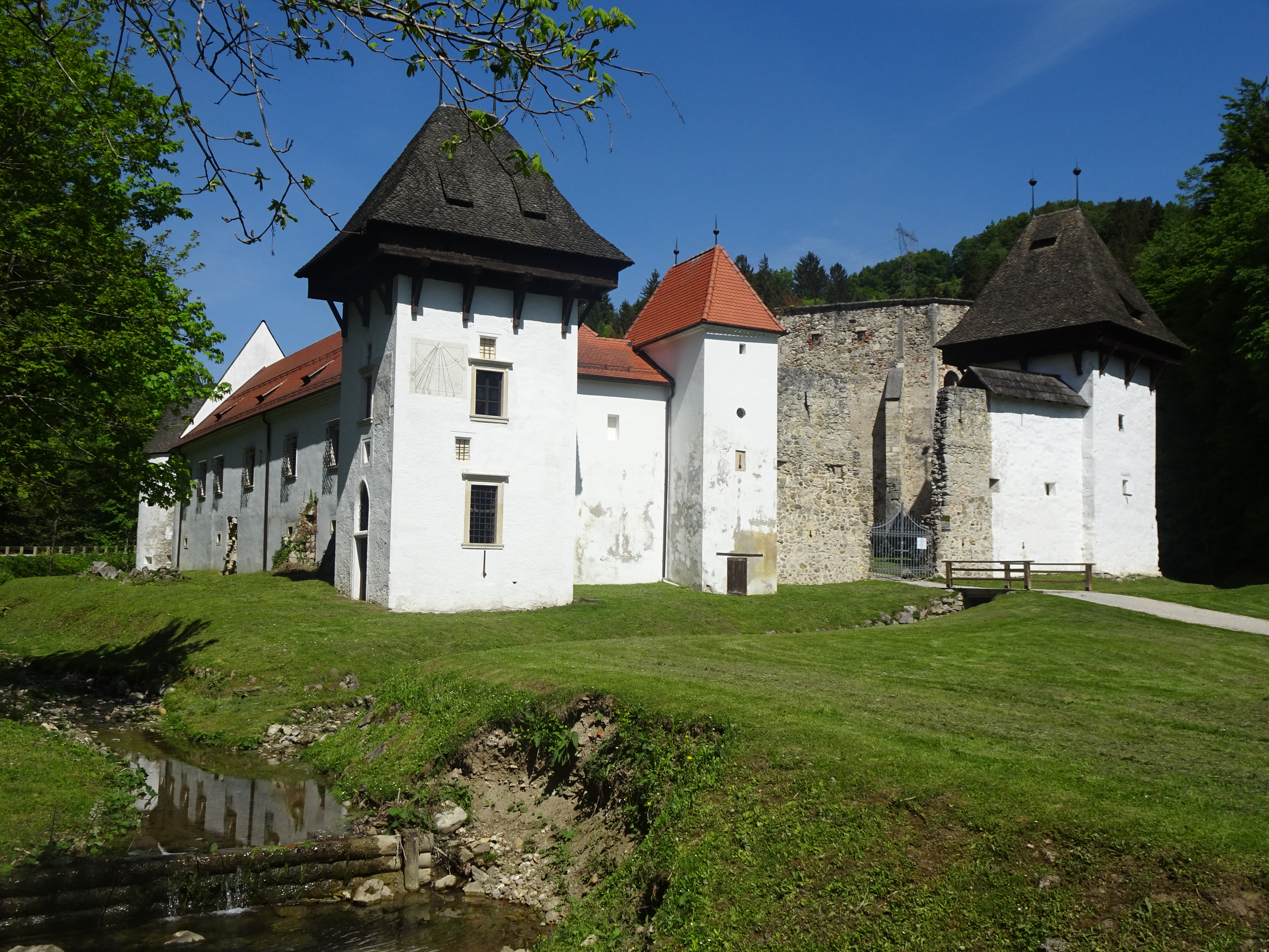 Žiče (Seitz) Charterhouse